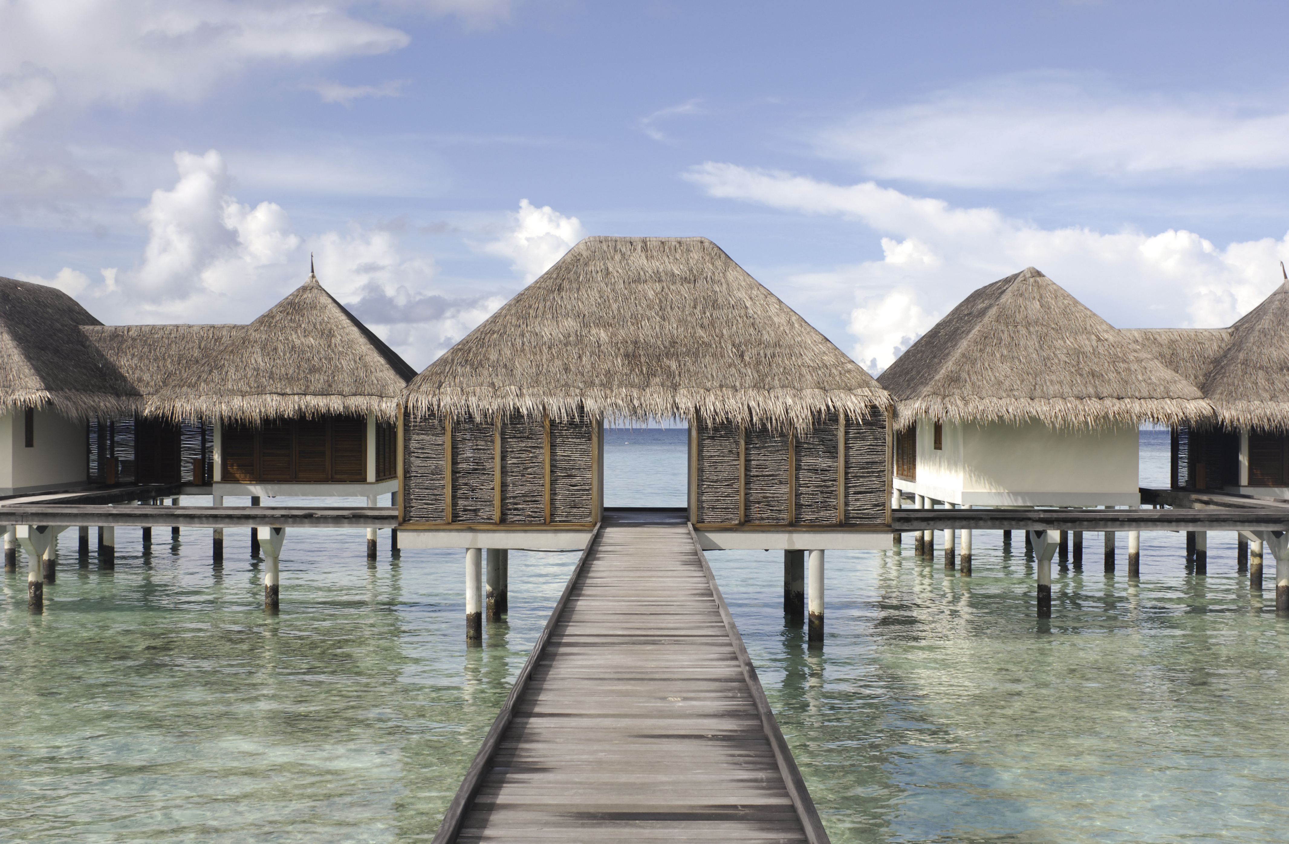 Thatched roof houses. Part of a resort on Landaa Giraavaru, Maldives.